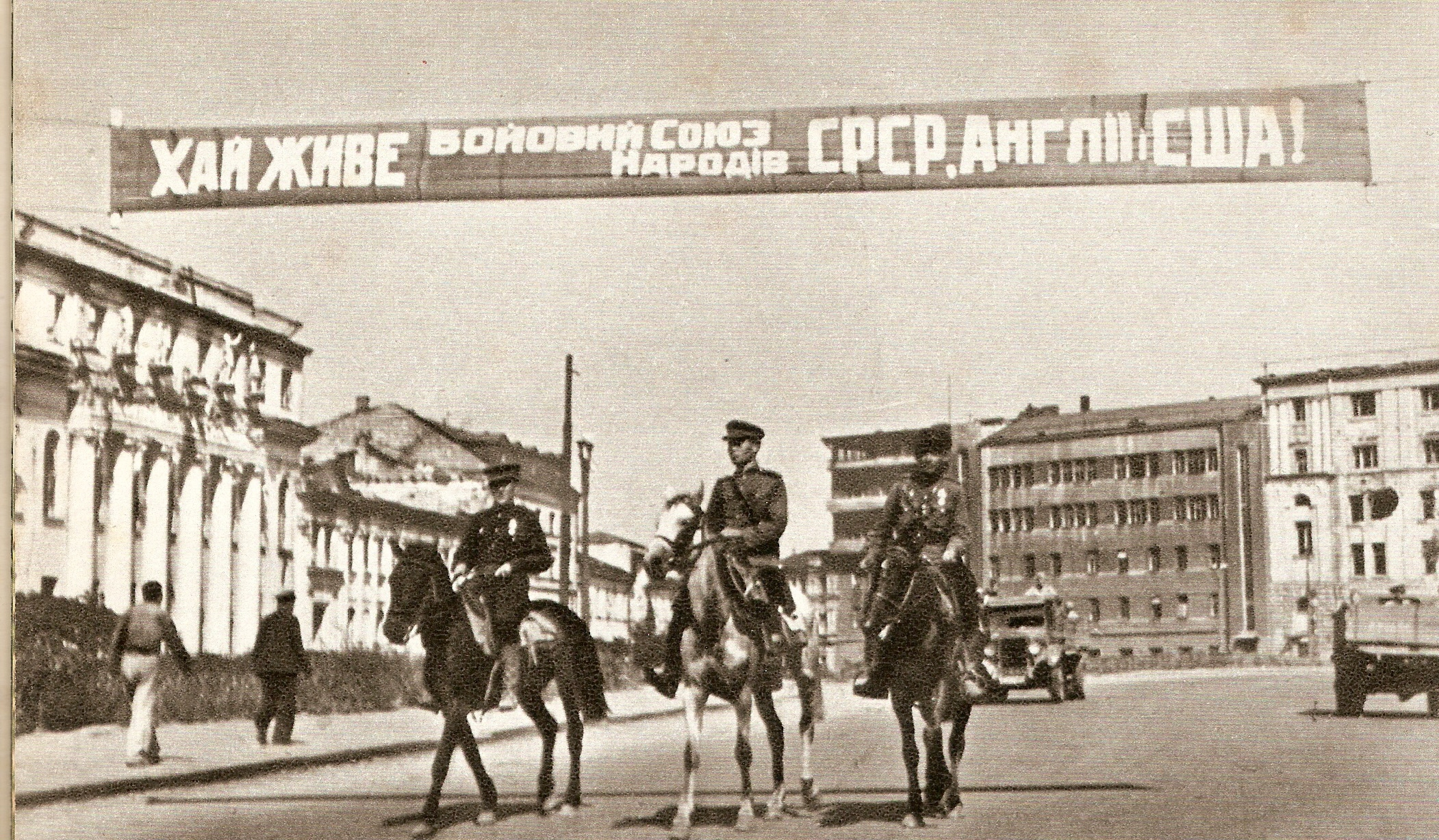 Soviet troops in Kharkov ( august 1943)